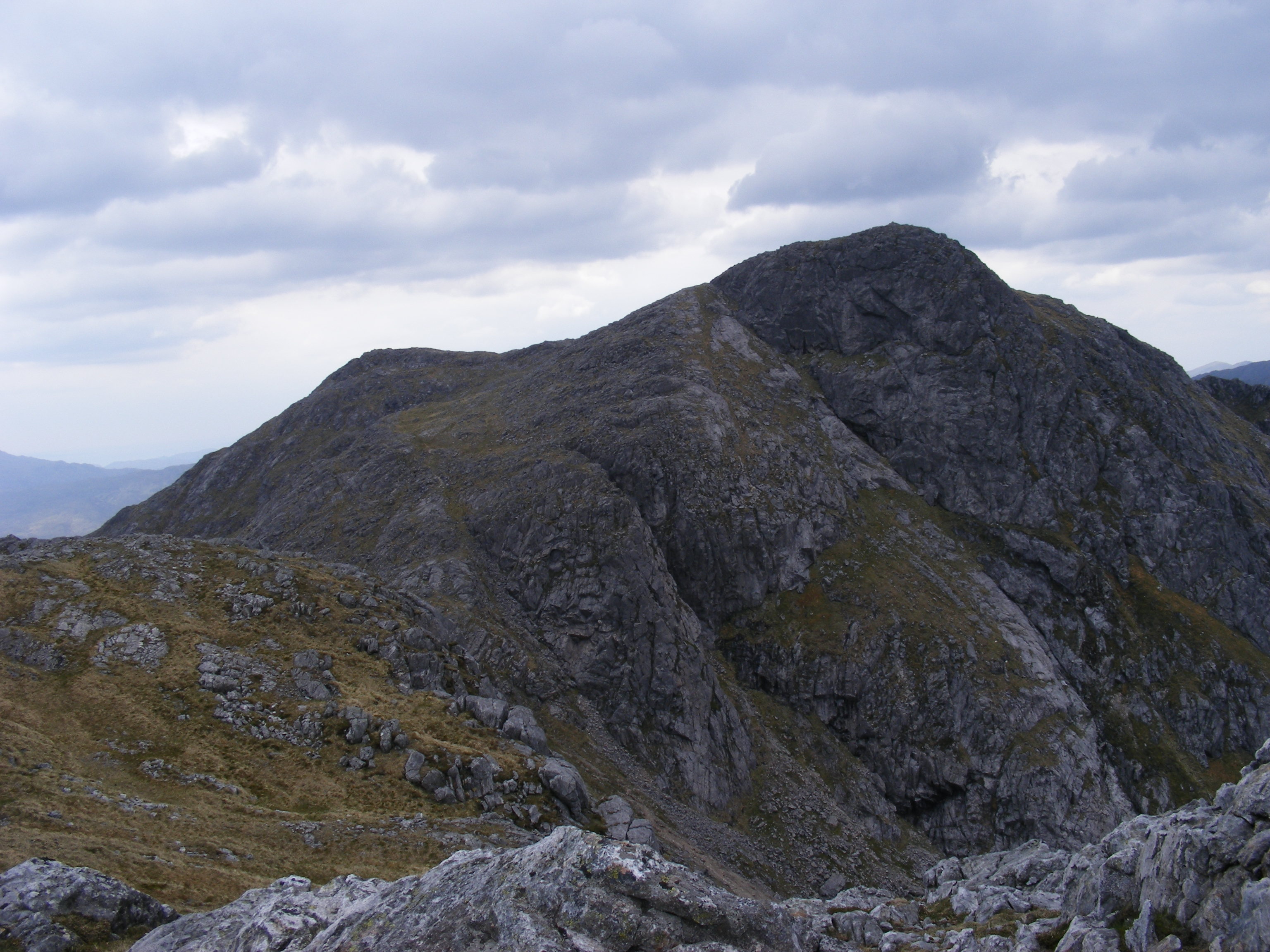 The impressive cliffs of the main summit of Garbh Bheinn, seen from its subsidiary south east summit